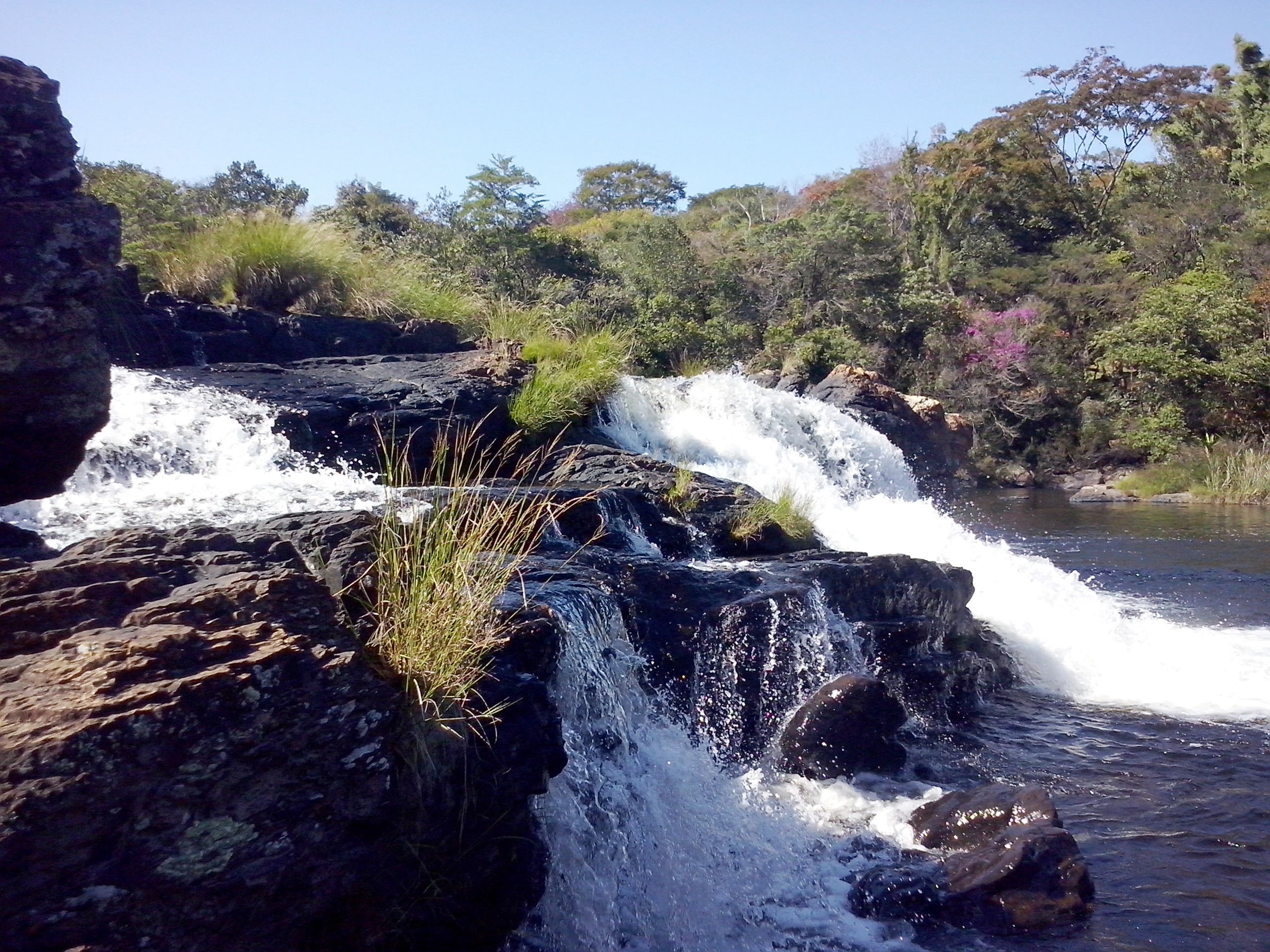 Tomé Waterfall, in the Serra do Cipó, in Santana do Riacho, Minas Gerais, Brazil.